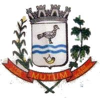 Coat of arms of Mutum, Minas Gerais, Brazil.